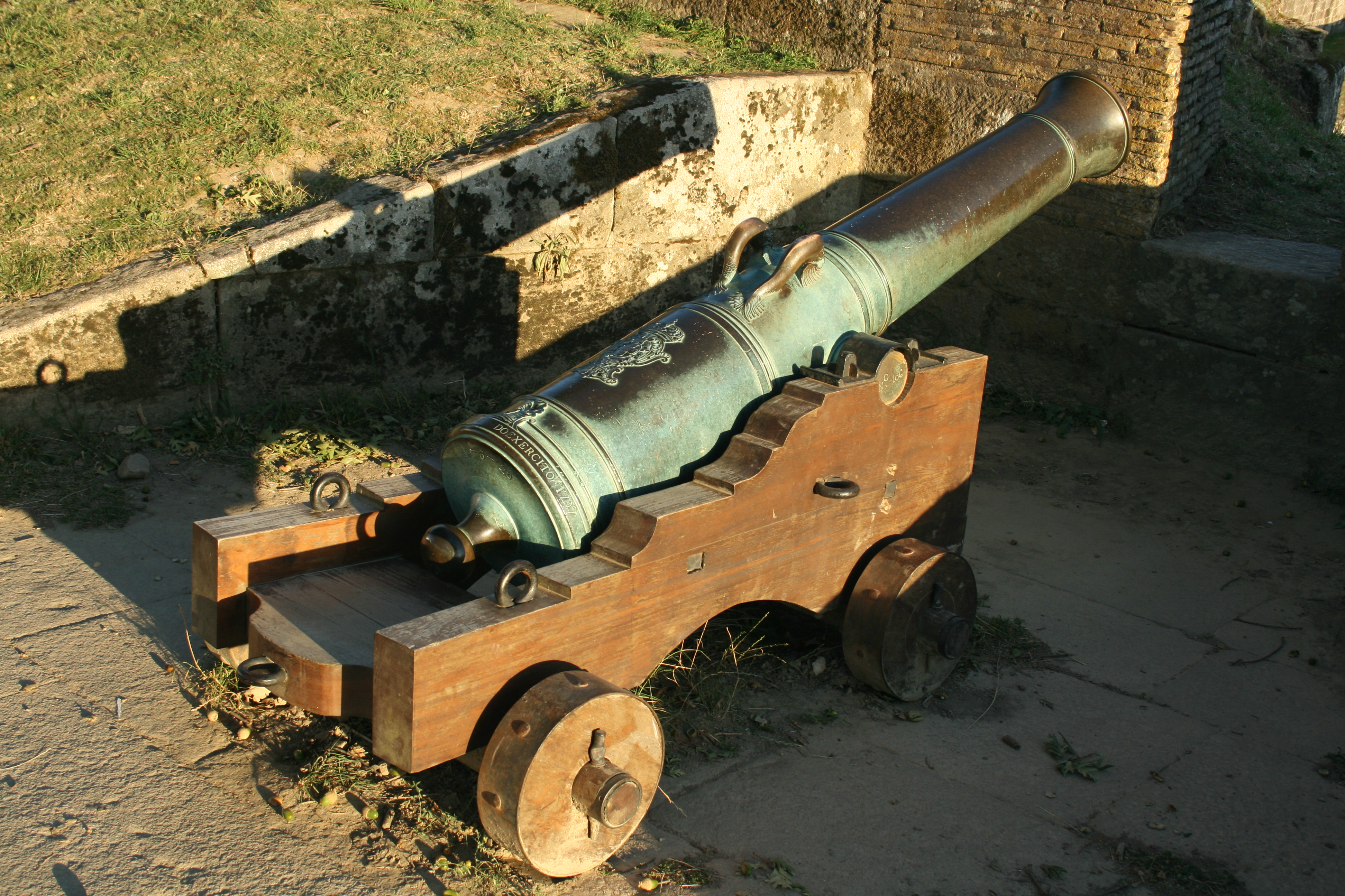 Cannon of the fortress of Valença do Minho, in northern Portugal, in the border with Spain.